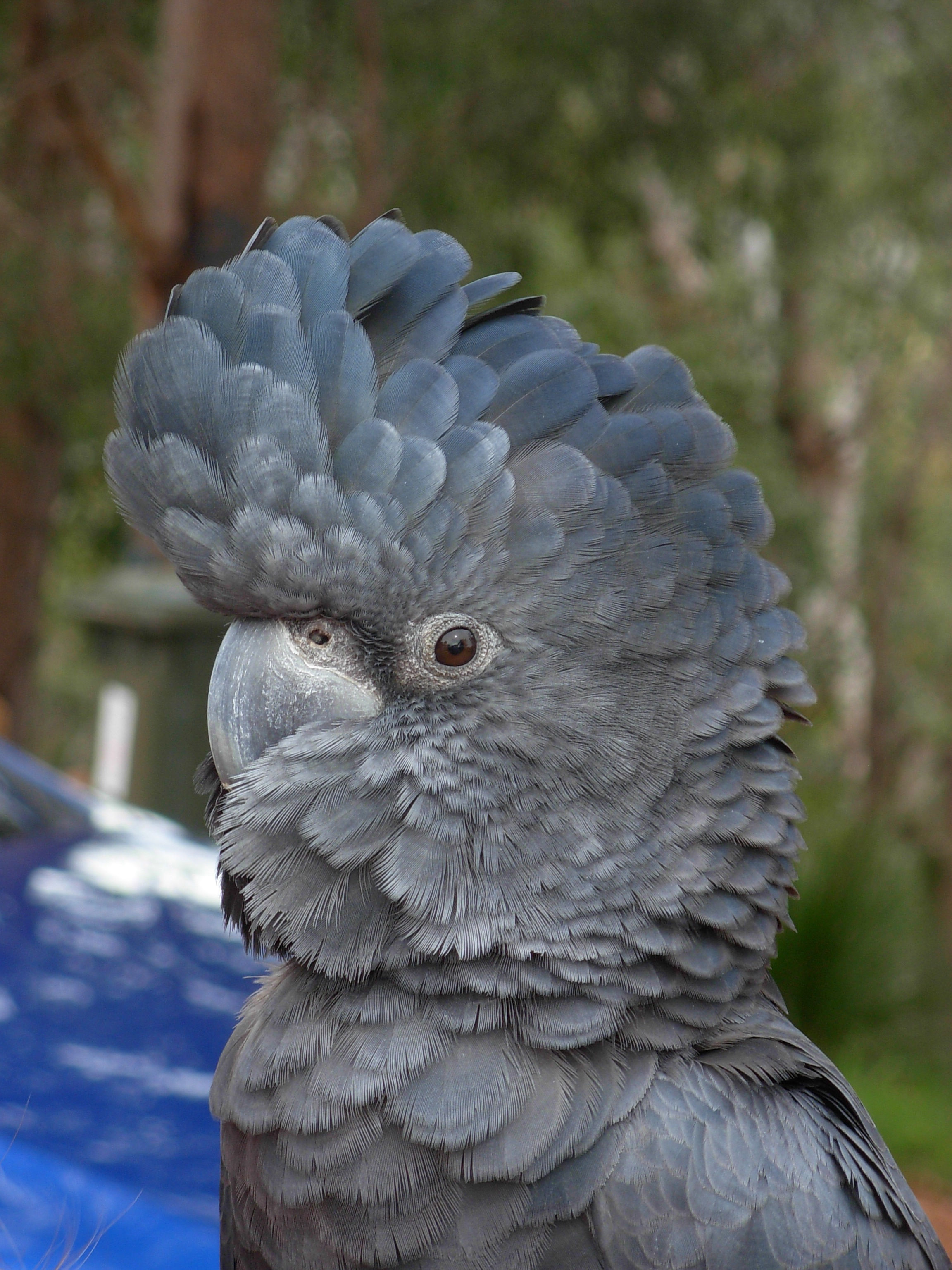 Red-tailed Black Cockatoo (Calyptorhynchus banksii) also known as Banksian- or Bank's Black Cockatoo. A tame parrot (ie hand reared and not from the wild) from the Karakamia wildlife sanctuary in Gooseberry Hill, Western Australia while on a Sunday walk with handler.